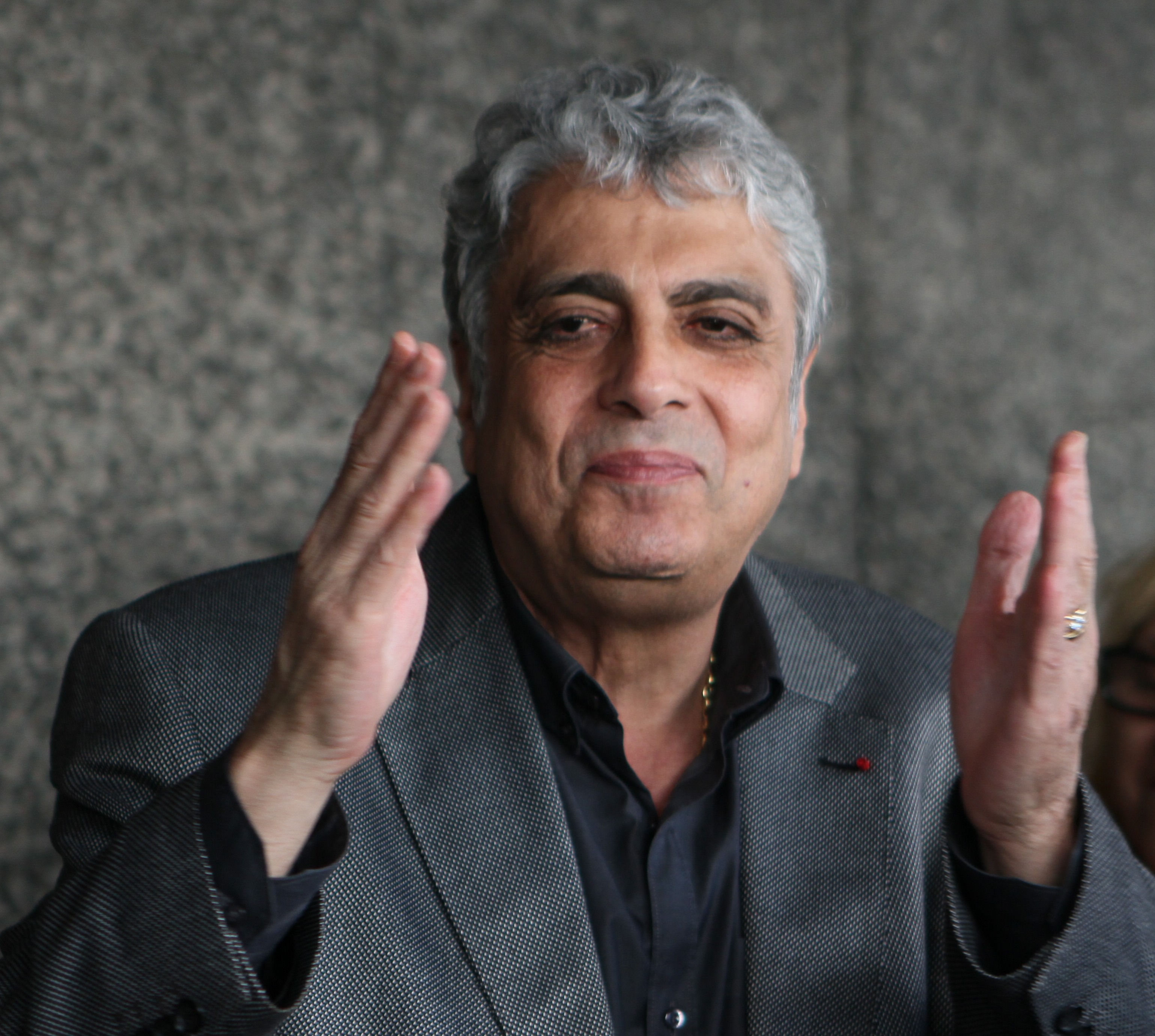 Enrico Macias in Tel Aviv